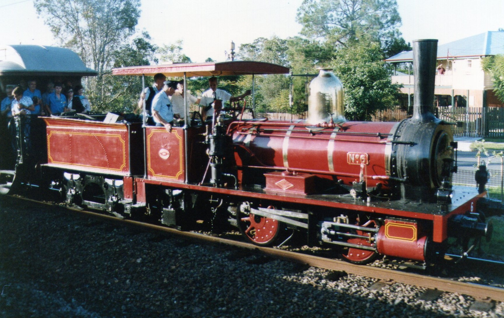 QR heritage loco A10 no. 6 on its first trip after restoration ~1990